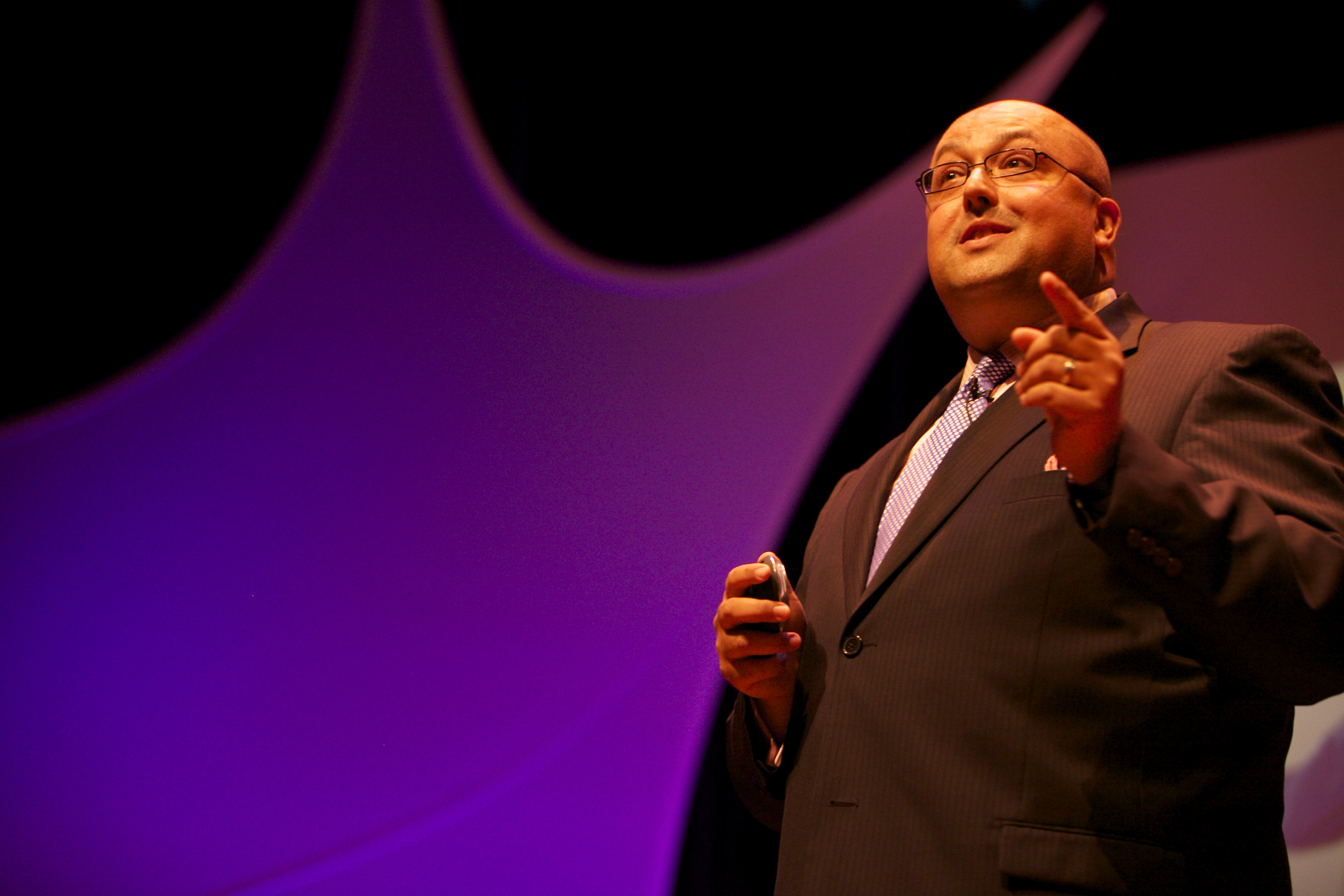 Siva Vaidhyanathan speaking at the Personal Democracy Forum 2011 at New York University's Skirball Center for the Performing Arts. Photograph taken on 6 June 2011 by Esty Stein for Personal Democracy Forum.